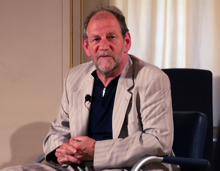 Michael Cramer, a German EU politician (Green Party), at a discussion in Leipzig